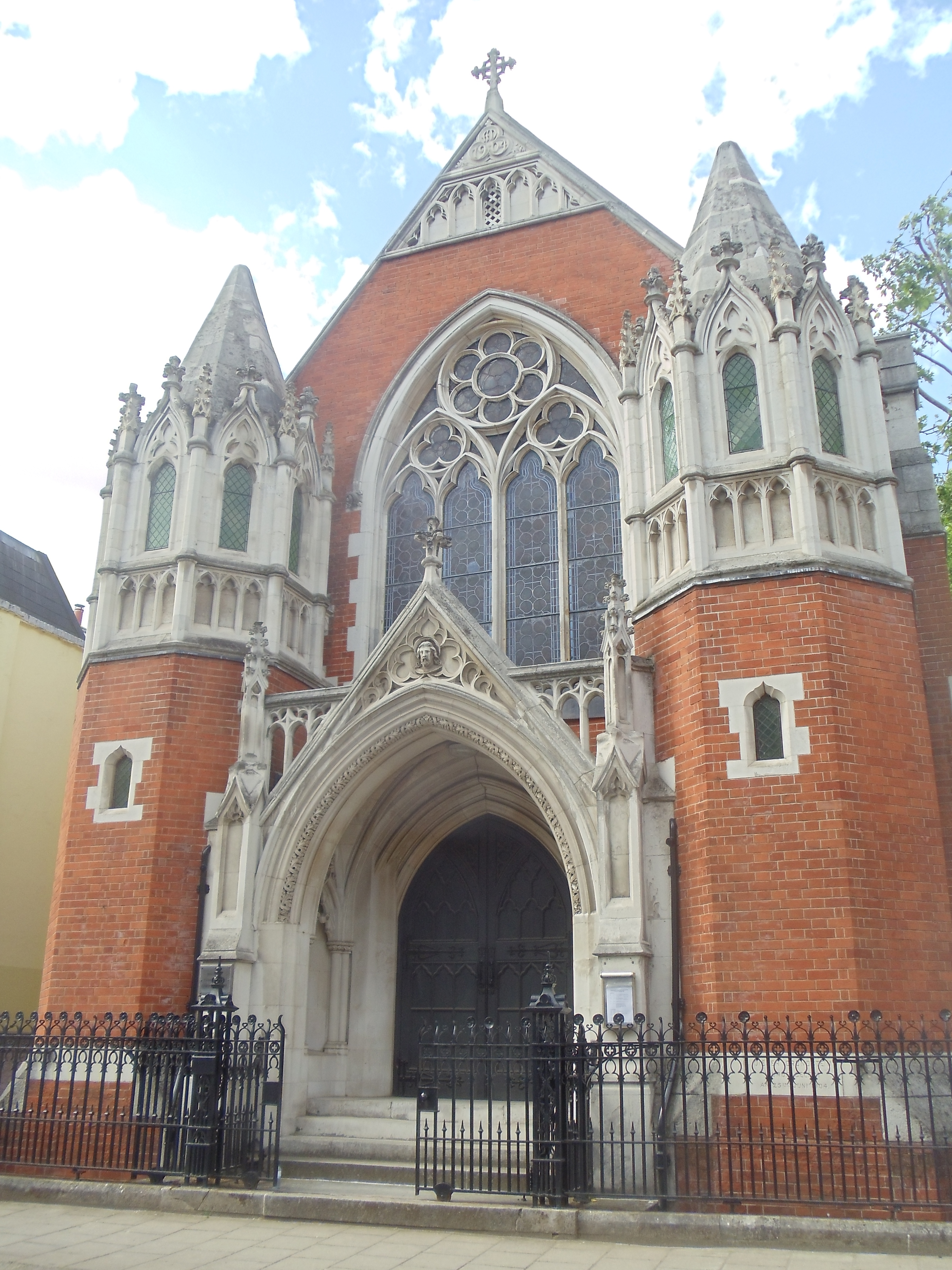 Christ Church German Evangelical Church, Montpelier Place, Knightsbridge, London